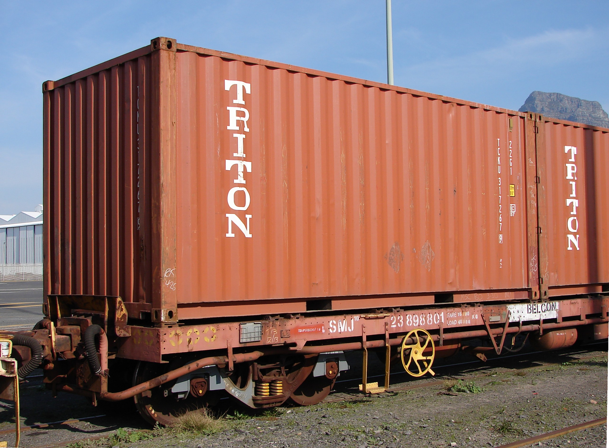 Line: Triton Container number: TCKU 317267 9 ISO size & type code: 22G1 ISO description: 20-ft dry container Location: Table Bay Harbour, Cape Town, South Africa